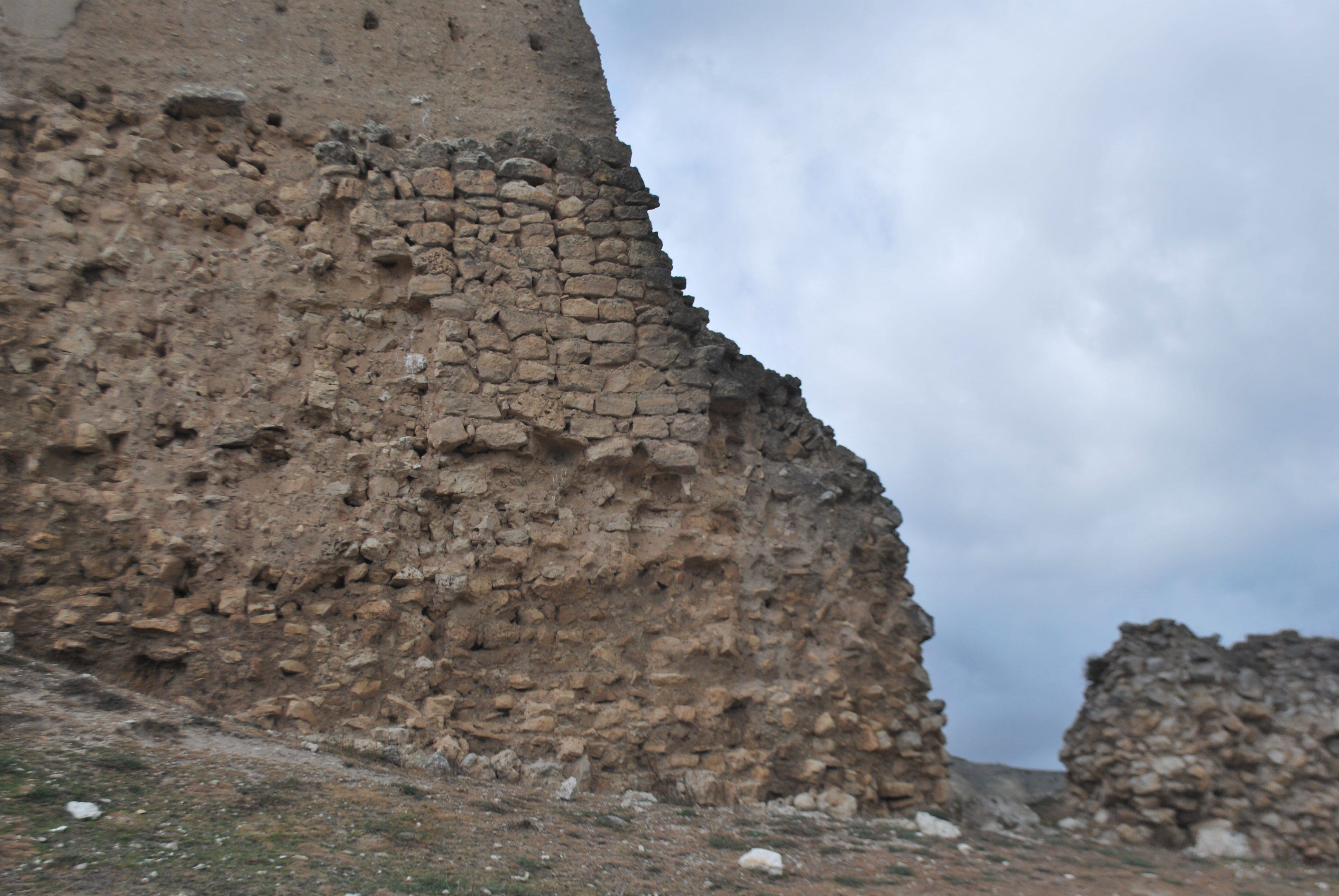 Castle of Palenzuela Detail of rest of stone masonry that originaly covered walls and towers of the castle.